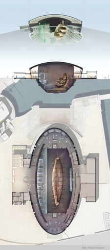 Artist's impression of what the new Mary Rose Museum will look like when finished.